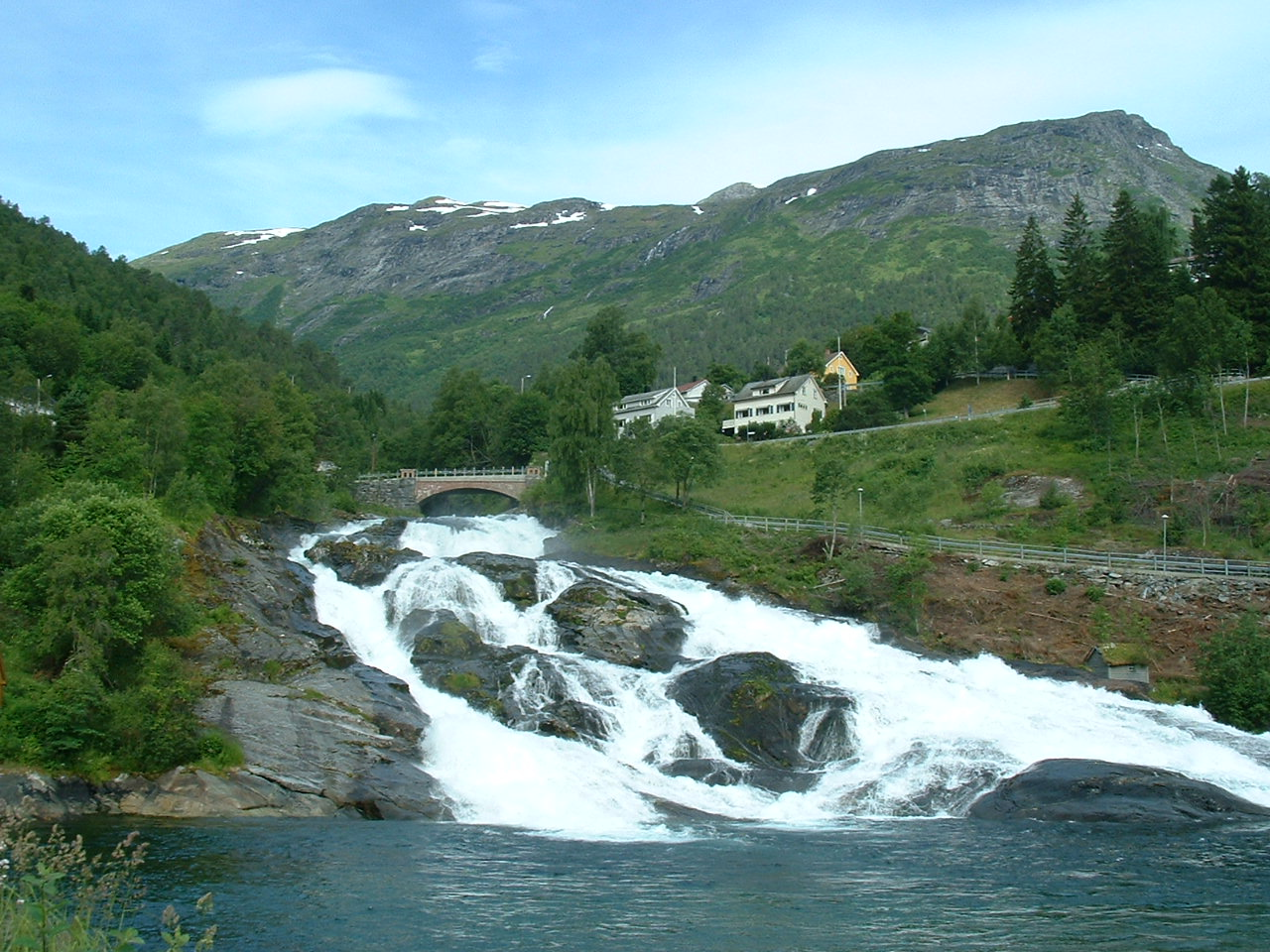 Hellesylt